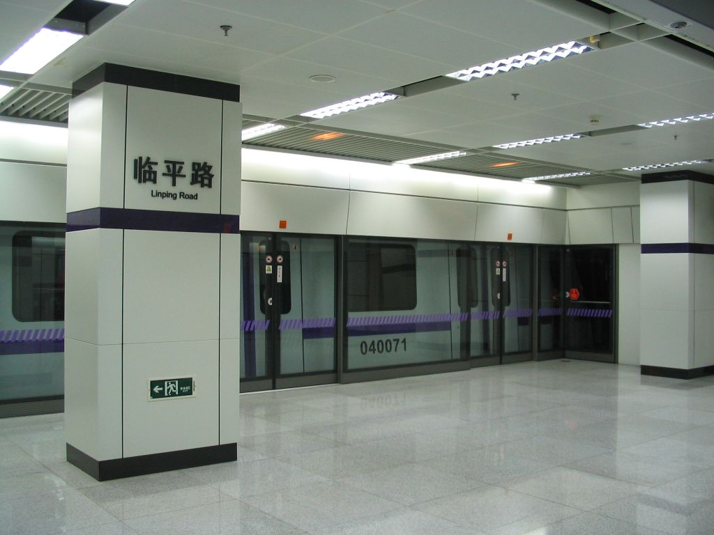 臨平路站-4號線月台 Line 4 Platform of Linping Road Station